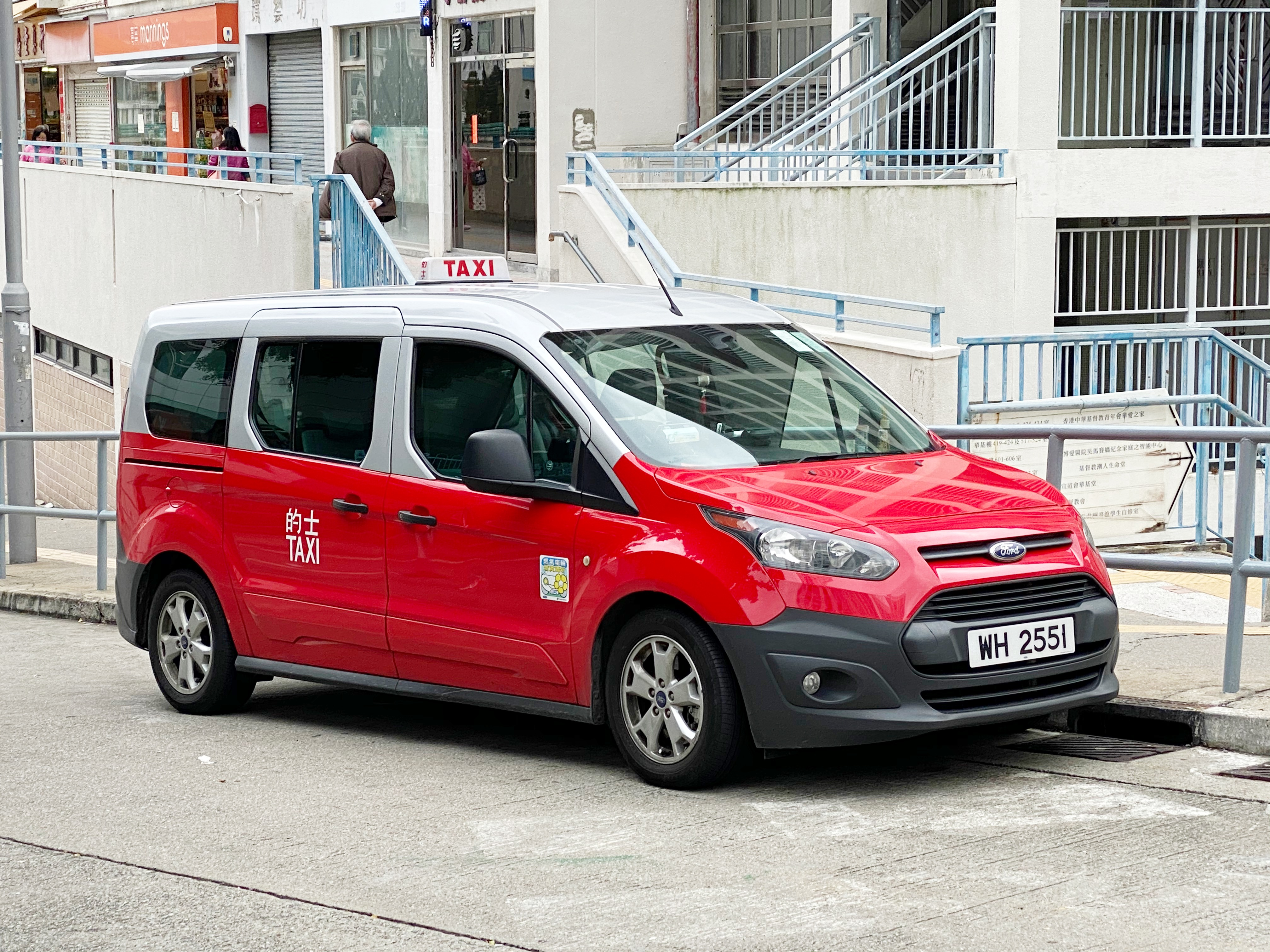 中文（香港）: This photo is taken in Wah Fu.